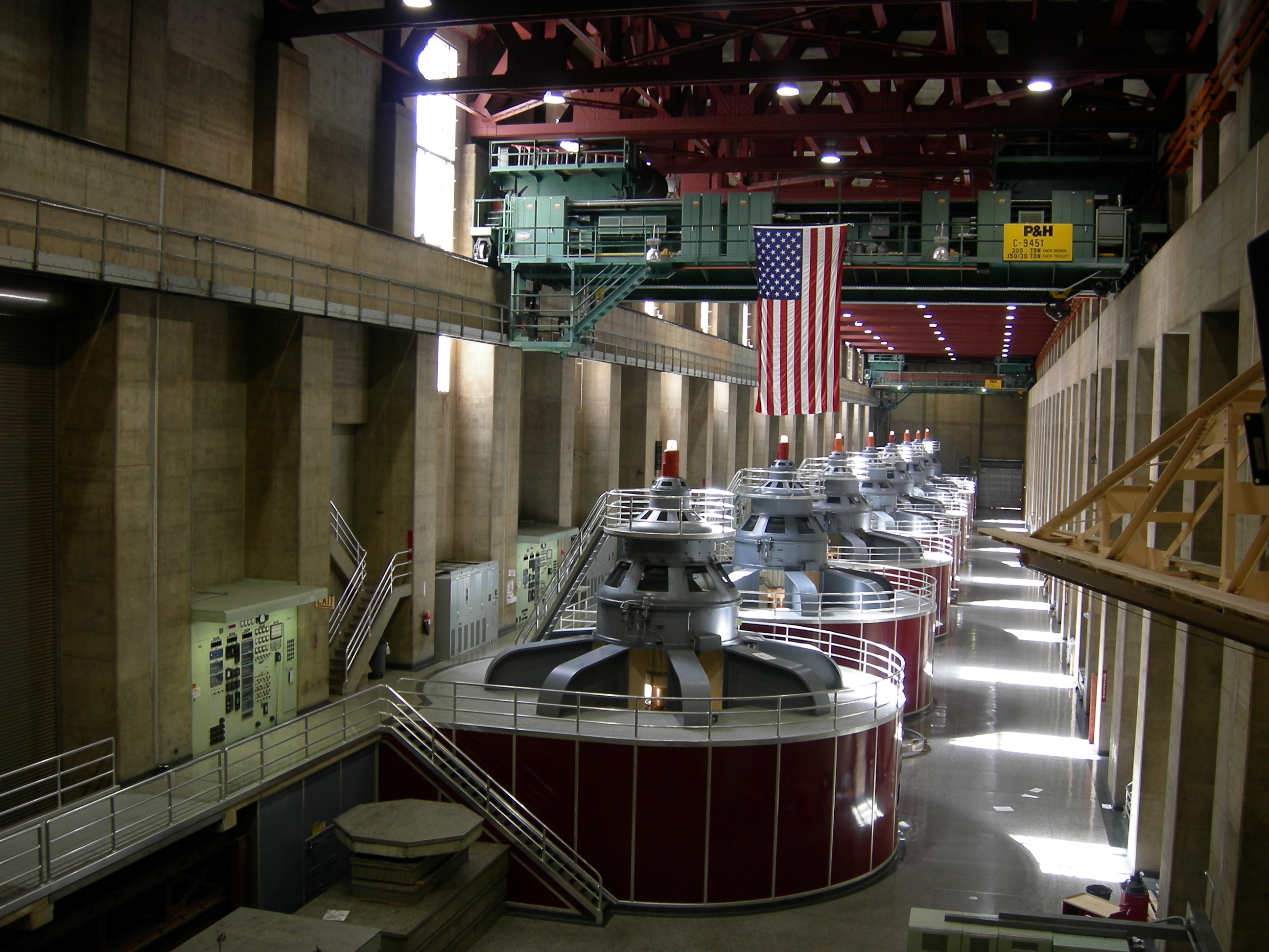 View of the generators inside one of the powerhouses of the Hoover Dam